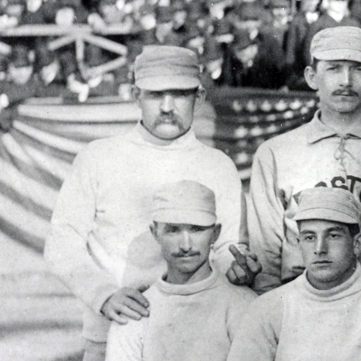 Group picture, Boston Beaneaters and New York Giants, Major League Baseball Opening Day 1886. Charles Radbourn giving the finger to cameraman.